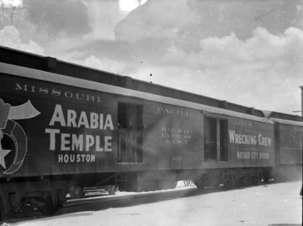 One side of a railroad train car with open doors. The left area of the train reads "ARABIA TEMPLE HOUSTON", the middle area reads "RAILWAY EXPRESS AGENCY" and "4251", and the area that is furthest from the viewer reads "WRECKING CREW" and "MEXICO CITY BOUND". Across the top of the train are the words "MISSOURI PACIFIC LINES." Title Railroad train Creator (LCNAF) Walker, Harry [photographer] Date 1910 - 1940s Description One side of a railroad train car with open doors. The left area of the train reads "ARABIA TEMPLE HOUSTON", the middle area reads "RAILWAY EXPRESS AGENCY" and "4251", and the area that is furthest from the viewer reads "WRECKING CREW" and "MEXICO CITY BOUND". Across the top of the train are the words "MISSOURI PACIFIC LINES." Subject.Topical (AAT) freight trains Subject.Geographic (TGN) Texas Genre (AAT) black-and-white negatives Language English Physical Description 1 negative Original Item Location ID 2002-005, Box 14, Folder 12 Original Collection Burdette Keeland Architectural Papers, 1926-2000 Digital Collection URL reformatted digital Repository Special Collections, University of Houston Libraries Use and Reproduction This image is in the public domain and may be used freely. If publishing in print, electronically, or on a website, please use the citation: "Courtesy of Special Collections, University of Houston Libraries. UH Digital Library. "